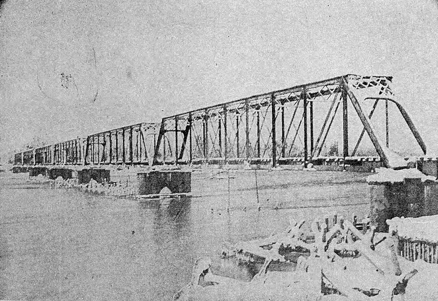 Shinanogawa Bridge (Ura Bridge) of Hokuetsu Railway Line